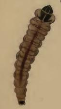 Stainton’s Natural History of the Tineina (1855–1873): Cosmopterix lienigiella